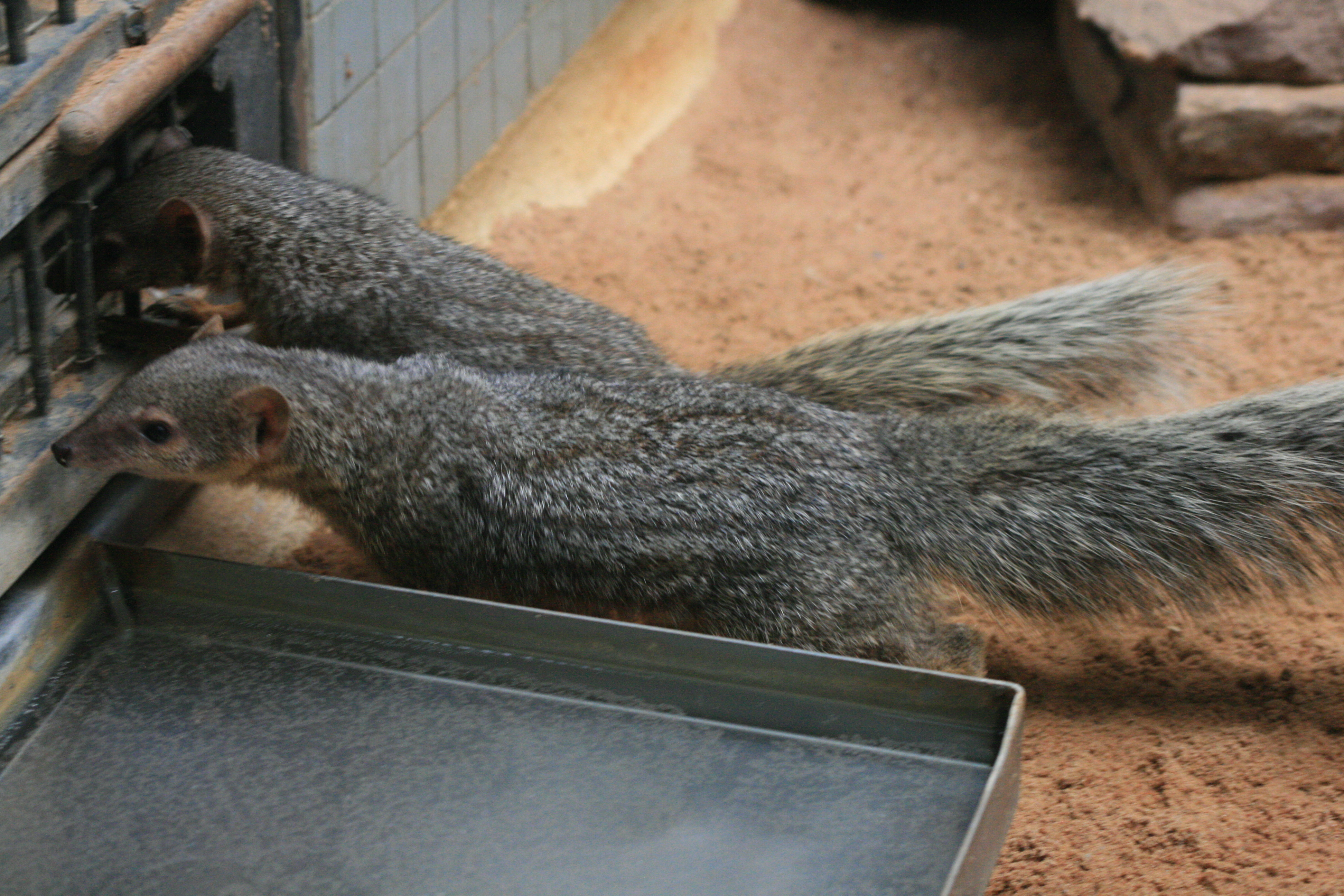 Narrow-striped Mongoose (Mungotictis decemlineata)